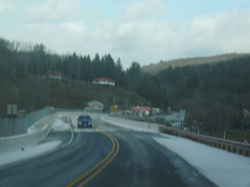 The fifth span of the Shohola–Barryville Bridge looking towards New York from Pennsylvania.